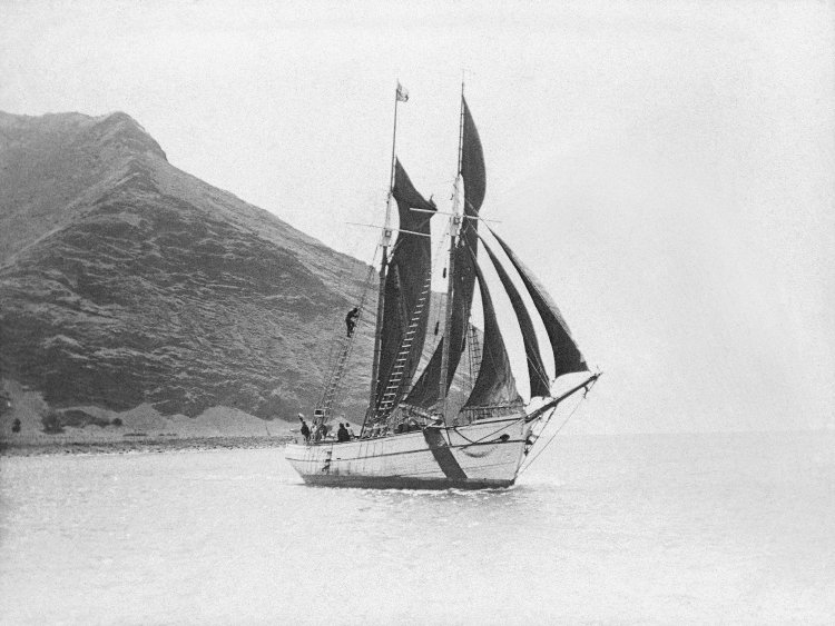 Routledge's schooner Mana, Easter Island. Lantern Slide (black and white); view of the Mana, ship, with its' sails up; Oceania. Photographic process